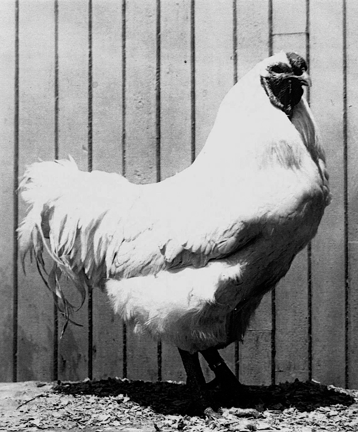 A White Chantecler rooster, taken in 1926 at the Abbey of Notre-Dame du Lac in Quebec, where the breed was developed. (Cropped from original)